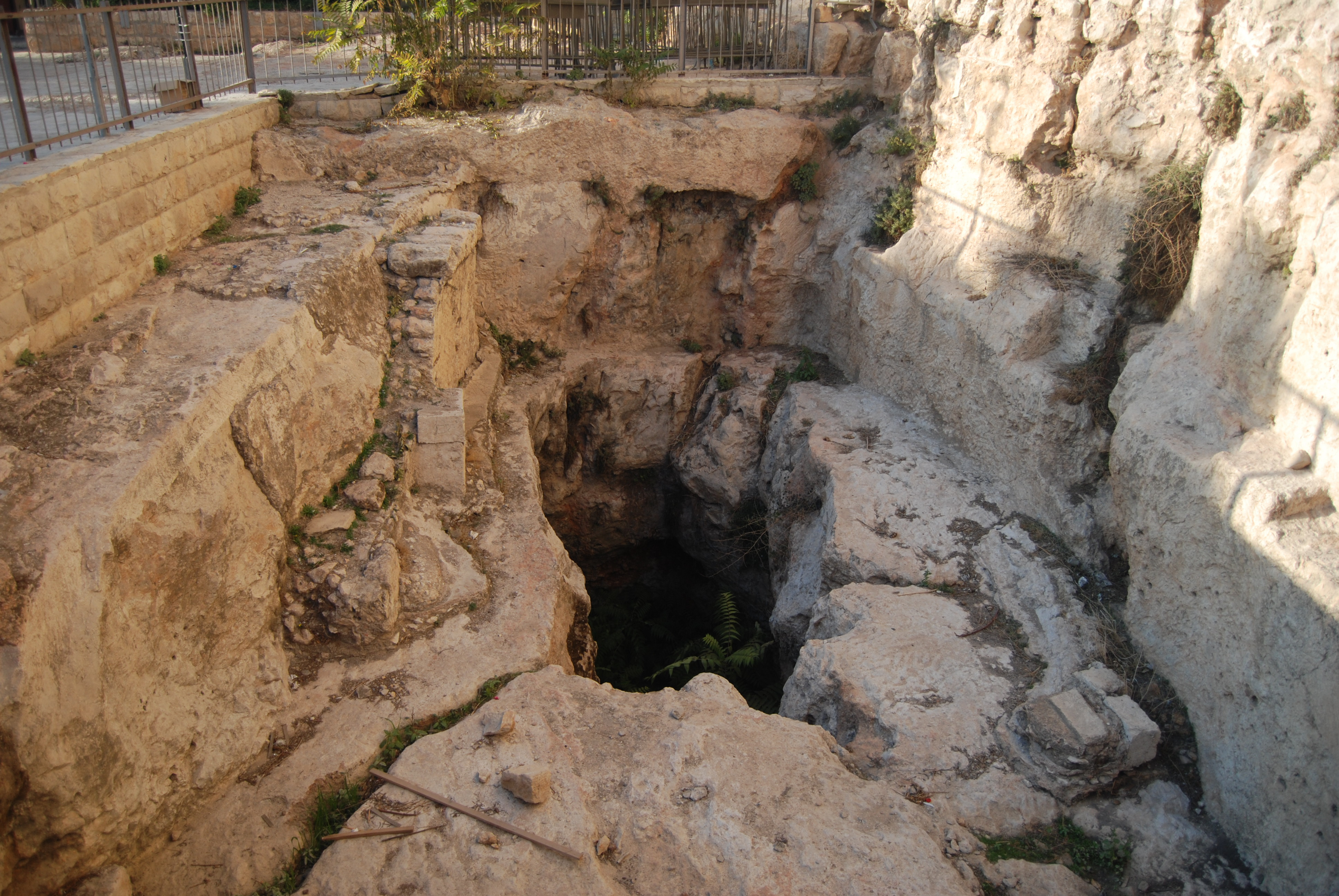 Cave of the Patriarchs